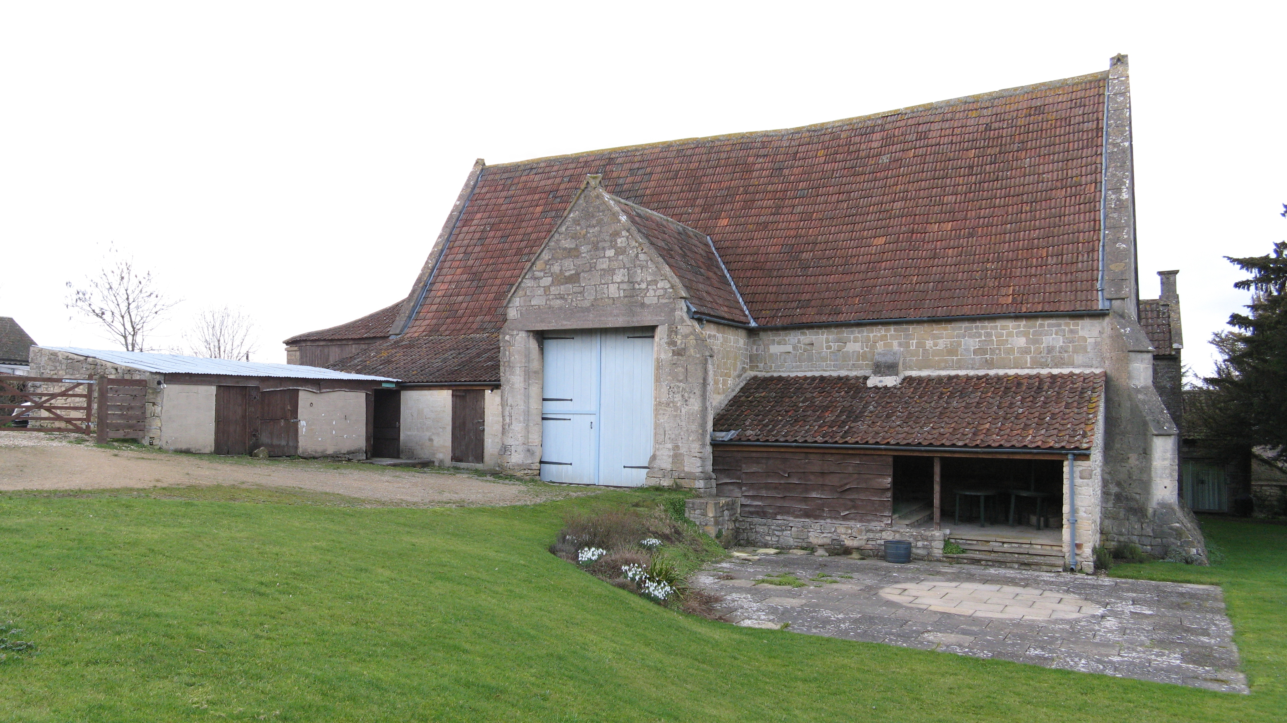 Englishcombe Tithe Barn, near Bath. A Grade II* listed building.[1]